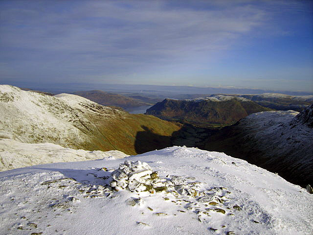 The Tongue valley (looking from Dollywaggon Pike), Troutbeck, Cumbria, Lake District National Park, United Kingdom, Europe (November 2008) .uk - ID 1063645